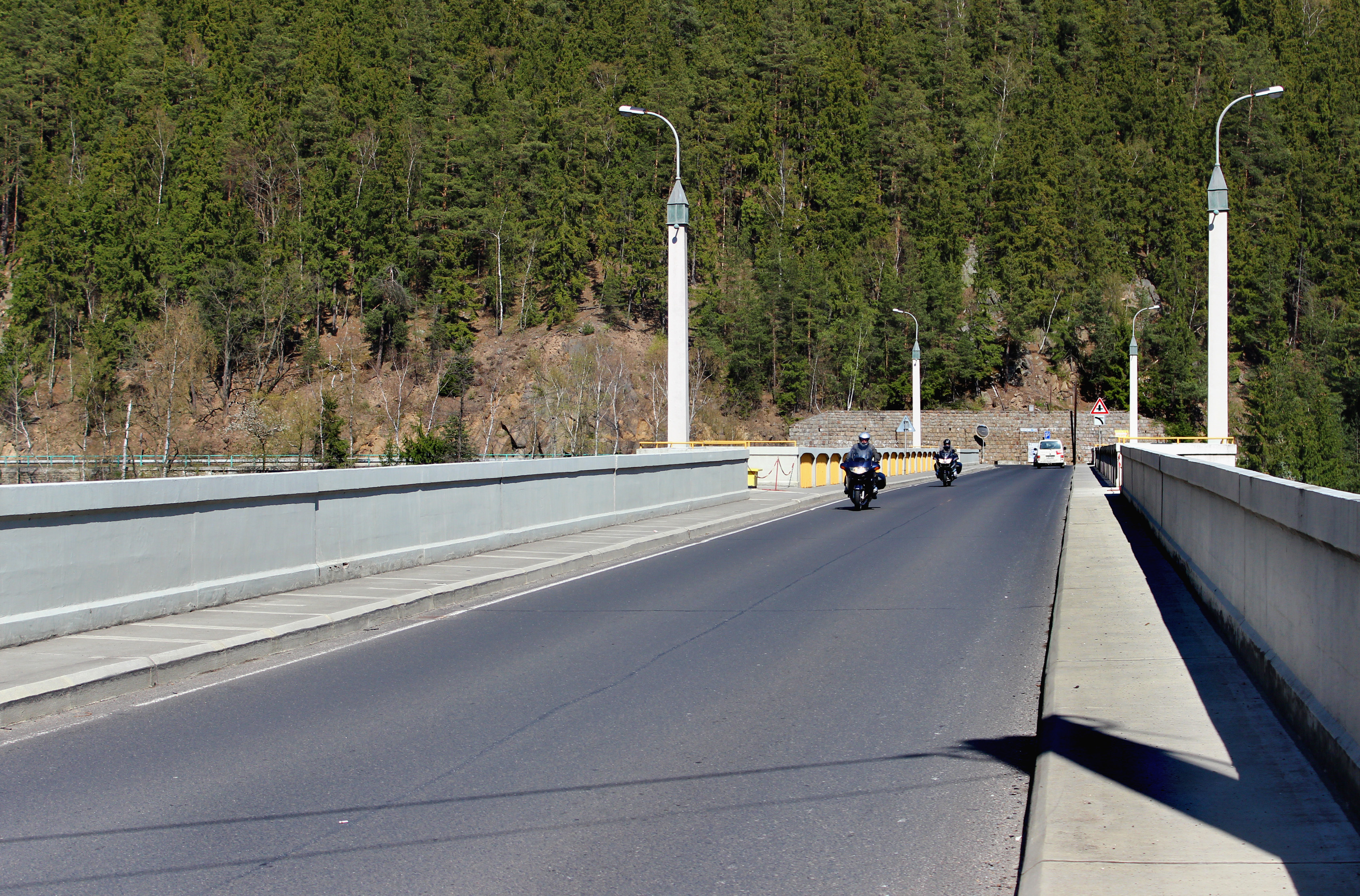 Březová Reservoir on Teplá River, Czech Republic